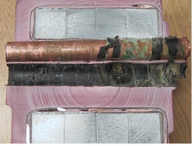 Sectioned cast resin CT showing internal discharge